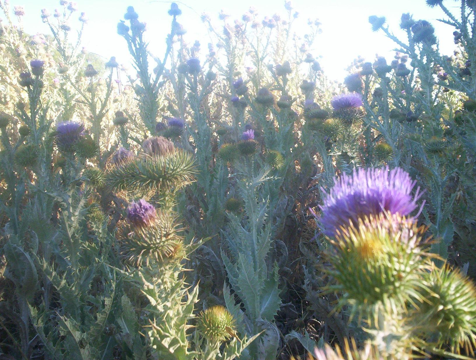 Cotton Thistle Onopordum acanthium flowers seen in Canberra, Australia.